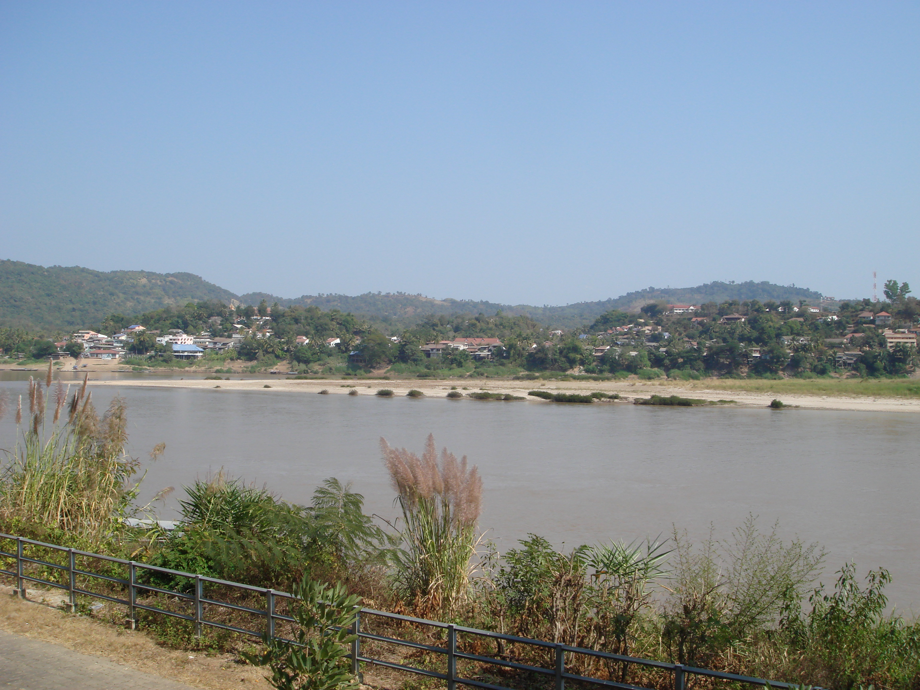 Huay Xai (Laos) as seen from Chiang Khong (Thailand).